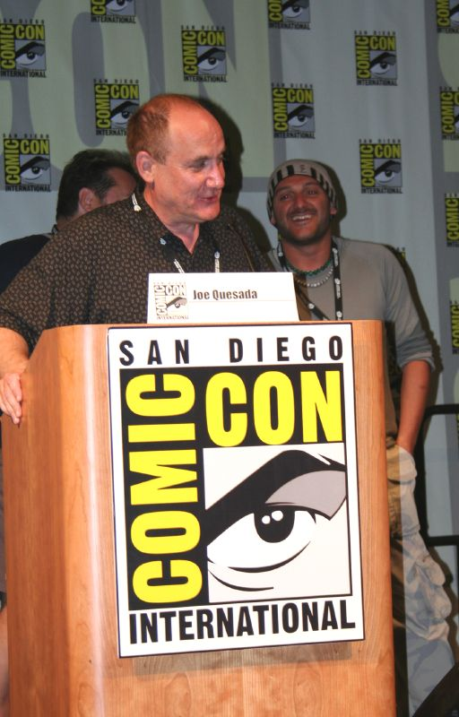 Writer Jeph Loeb promoting some of his future work, during the 2006 San Diego ComiCon.